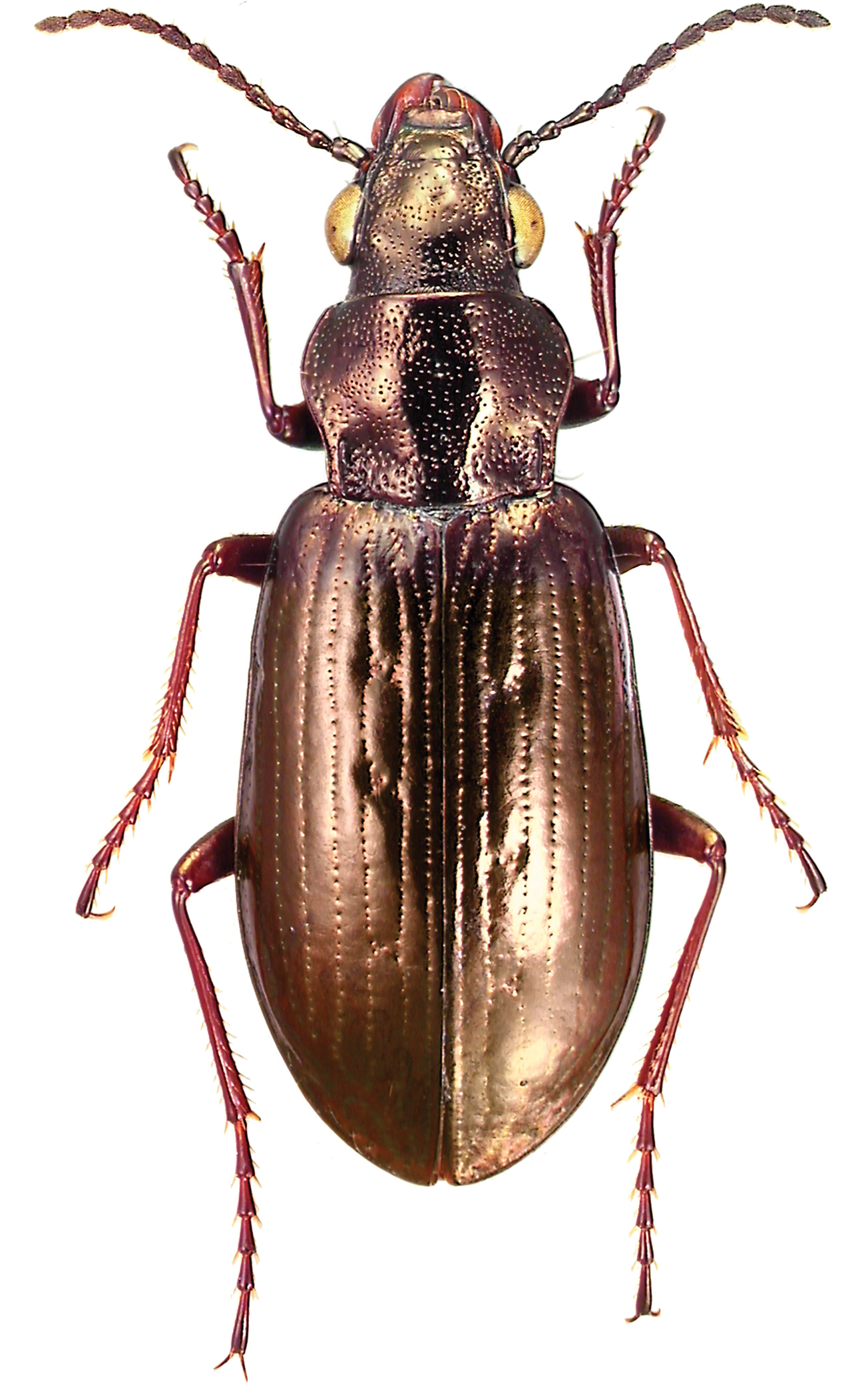 Diacheila arctica amoena (Faldermann). This subspecies is widely distributed over the arctic and subarctic regions of the Northern Hemisphere, ranging from Labrador to Kazakhstan, but populations seem to be highly localized. The German coleopterist Franz Faldermann found the adults of this taxon “pleasant” hence his scientific name amoena. The nominotypical subspecies ranges from the Nordic regions of Scandinavia to the Komi Republic in northern European Russia.